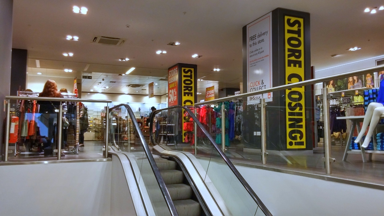 BHS, Trinity, Albion Arcade, Leeds